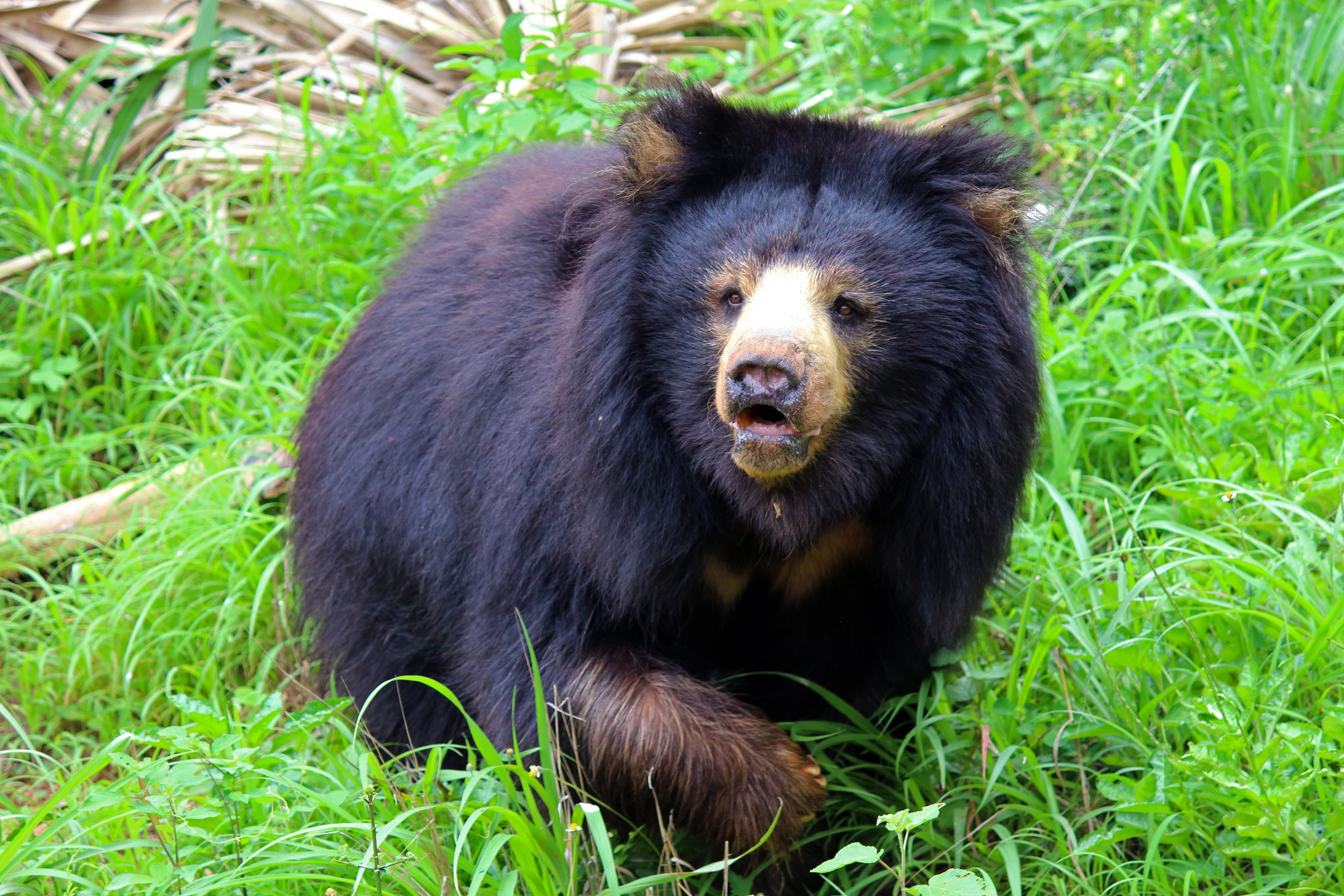 This photo was taken in biosphere of Indira Gandhi Zoological Park visakhapatnam (AP) .